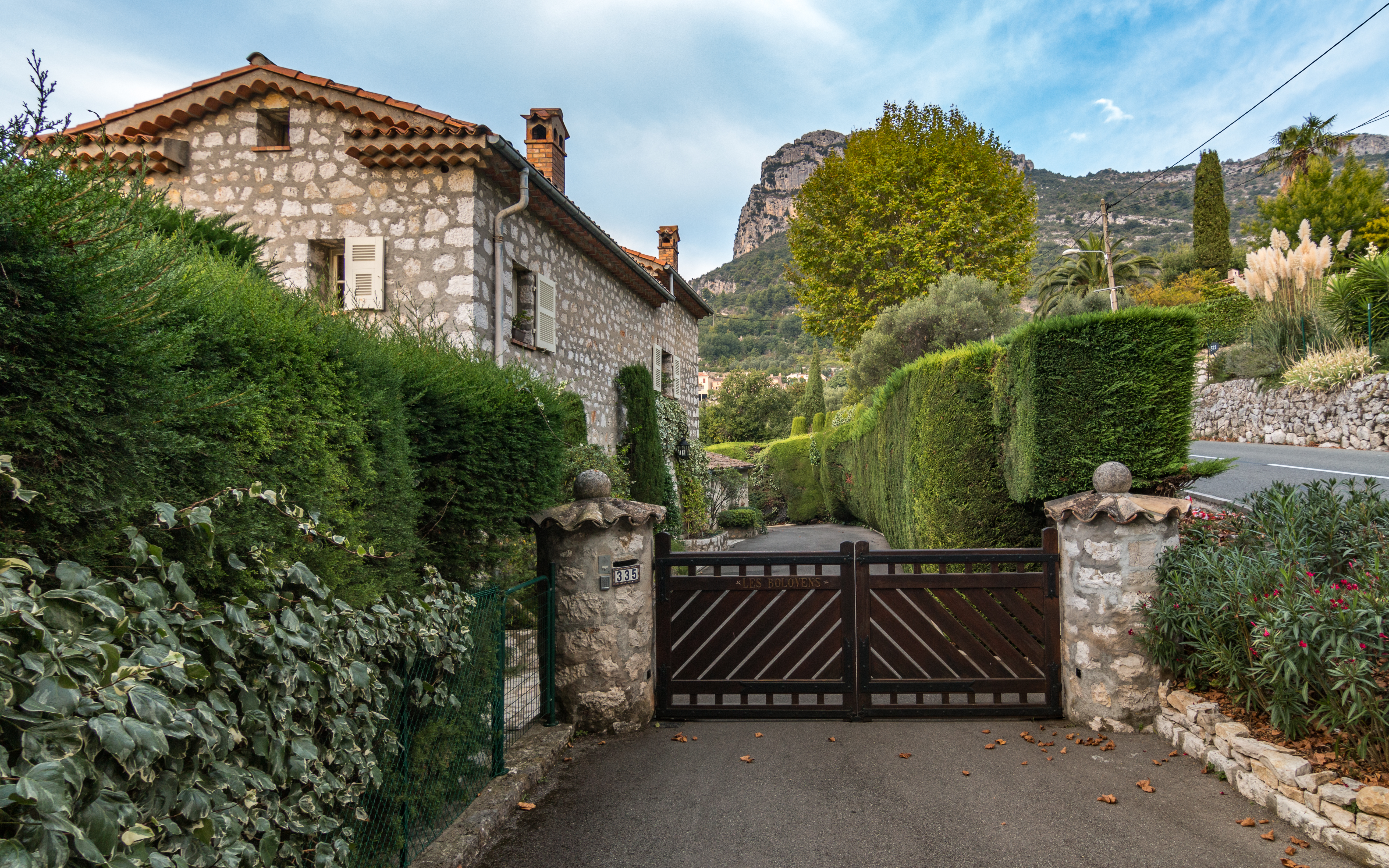 John Robie's house from To catch a thief in Saint-Jeannet